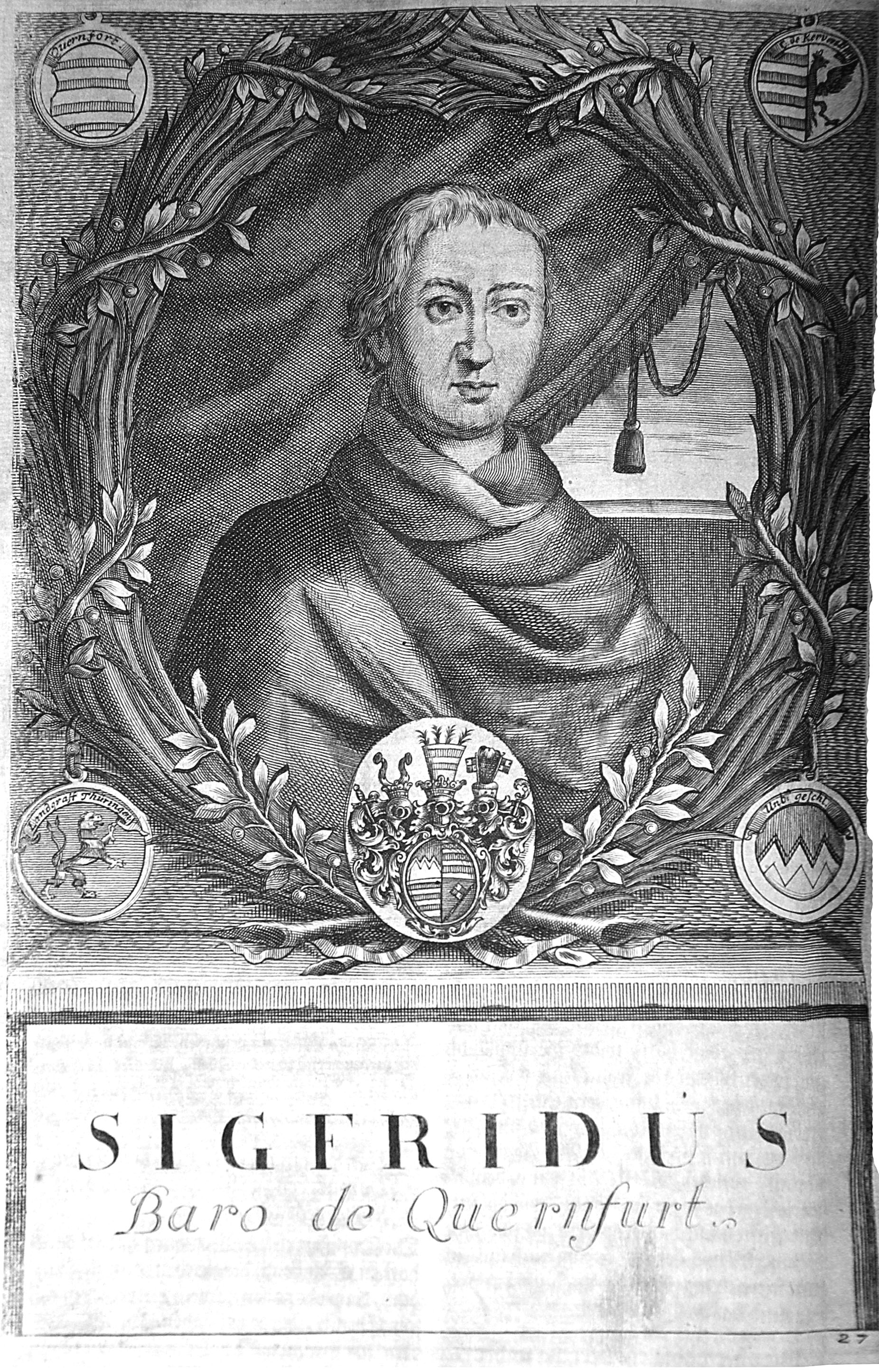 Siegfried von Truhendingen 1146 to 1150 Bishop of Würzburg